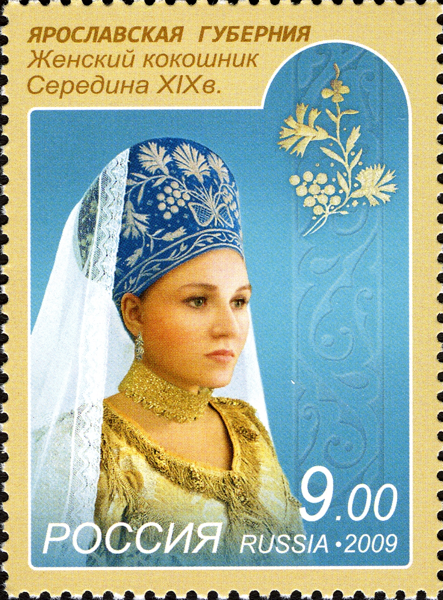 Culture of Russian People - National Head dress - Kokoshnik - Middle of XIX Century, Yaroslavl Province. Postage stamp of Russia. 9 roubles